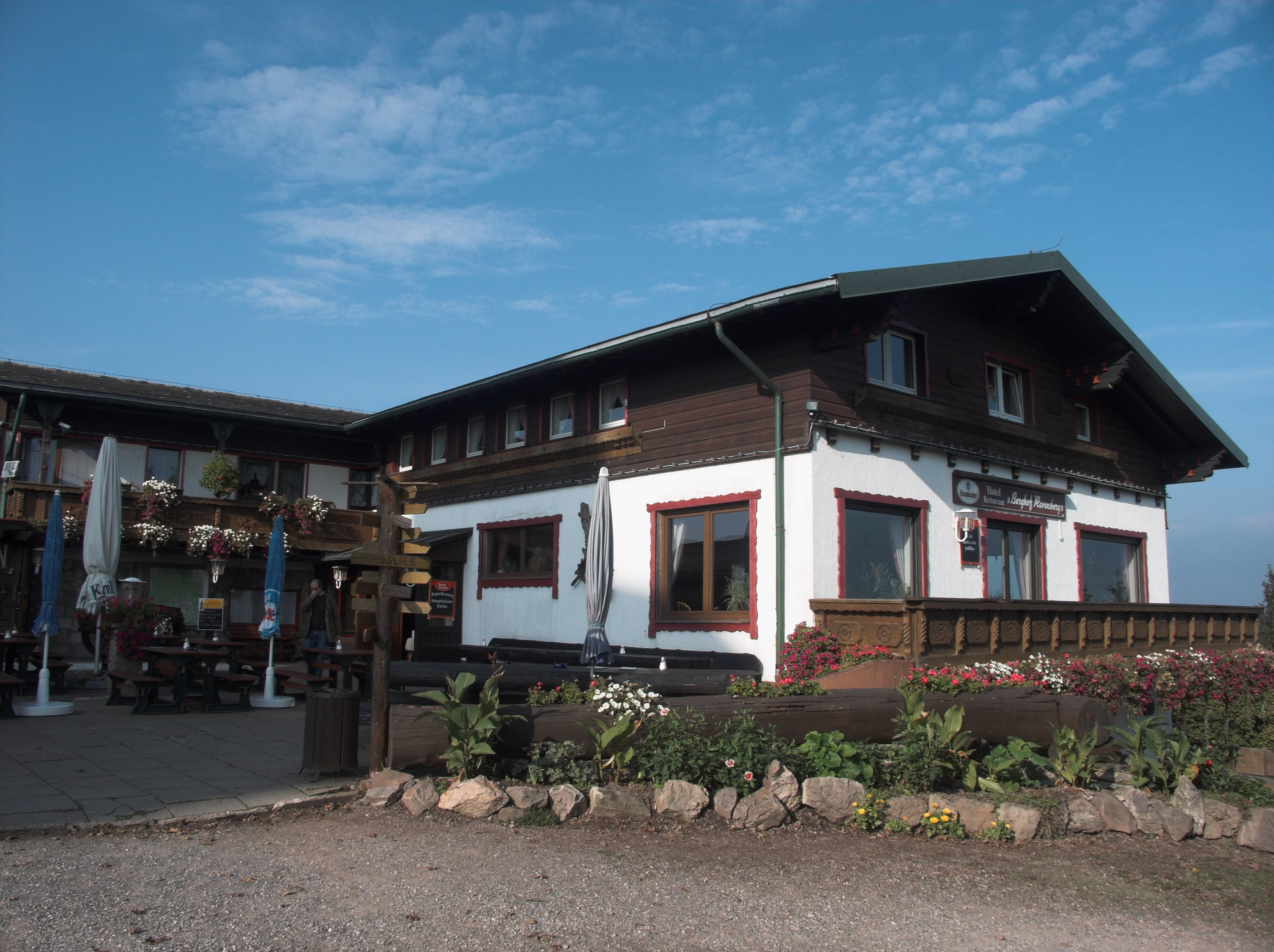 The mountain restaurant at the summit of the Ravensberg in the Harz mountains of Germany